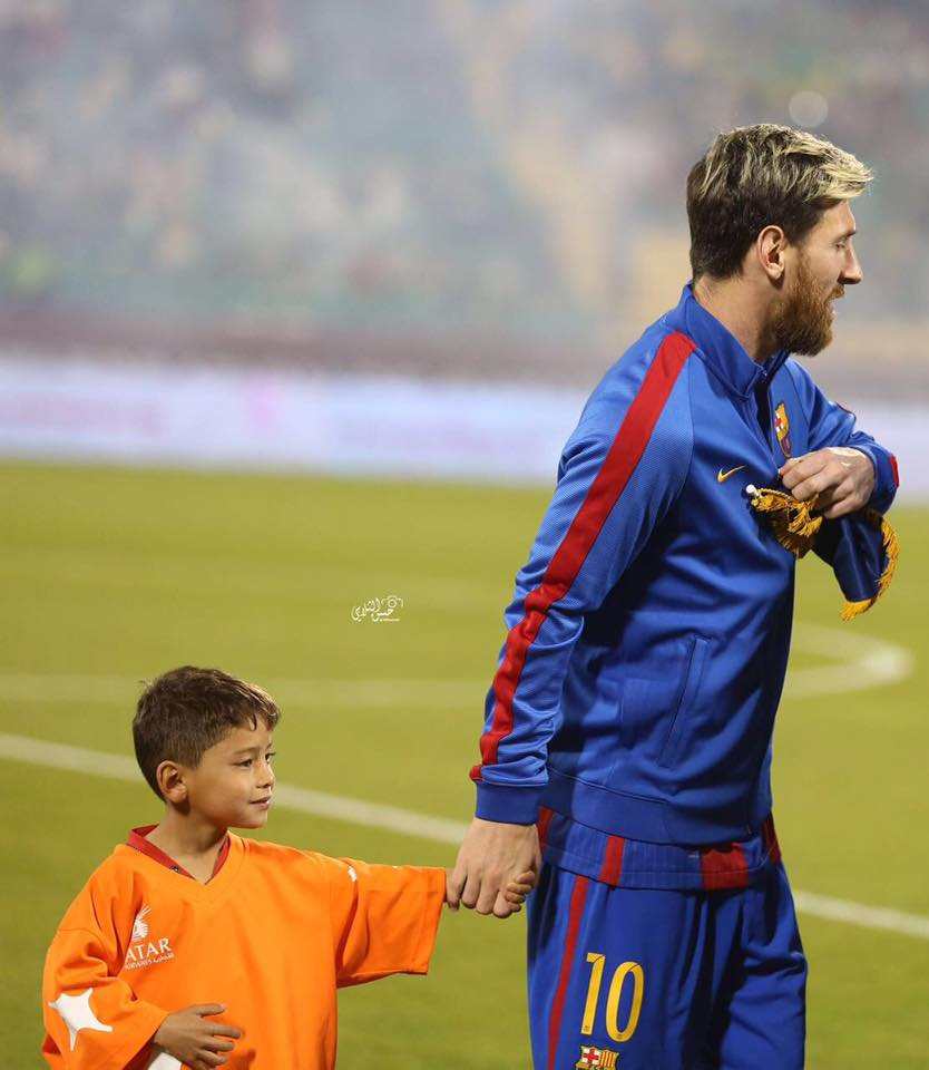 Al-Ahli FC v FC Barcelona December 16, 2016